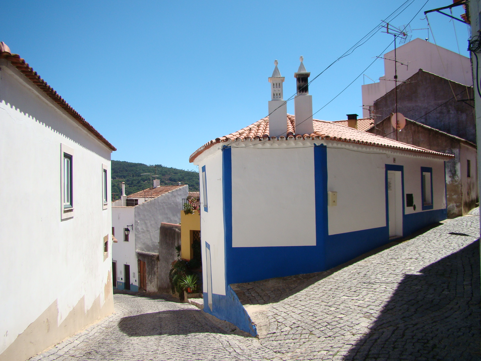 Blue and white cottage located in the Rua da Fonte Velha, in the town centre of Monchique, Algarve, Portugal